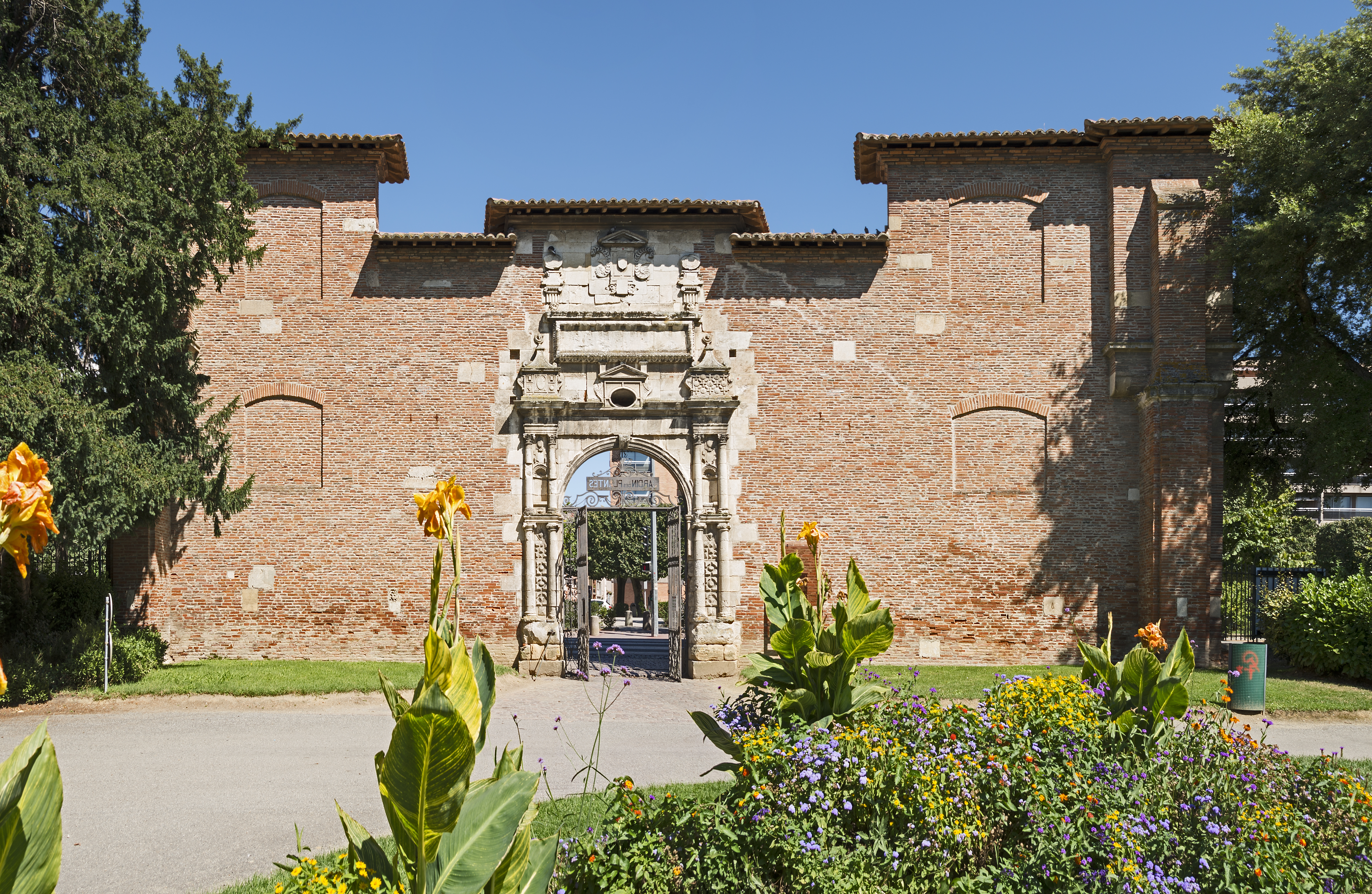 Jardin des Plantes, Toulouse. Old door of the Capitol, 1555.